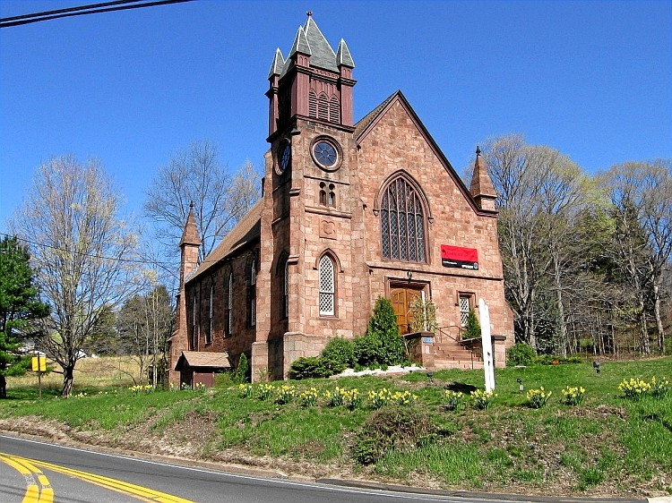 Northford Congregational Church, North Branford, Connecticut. Part of the Northford Center Historic District.